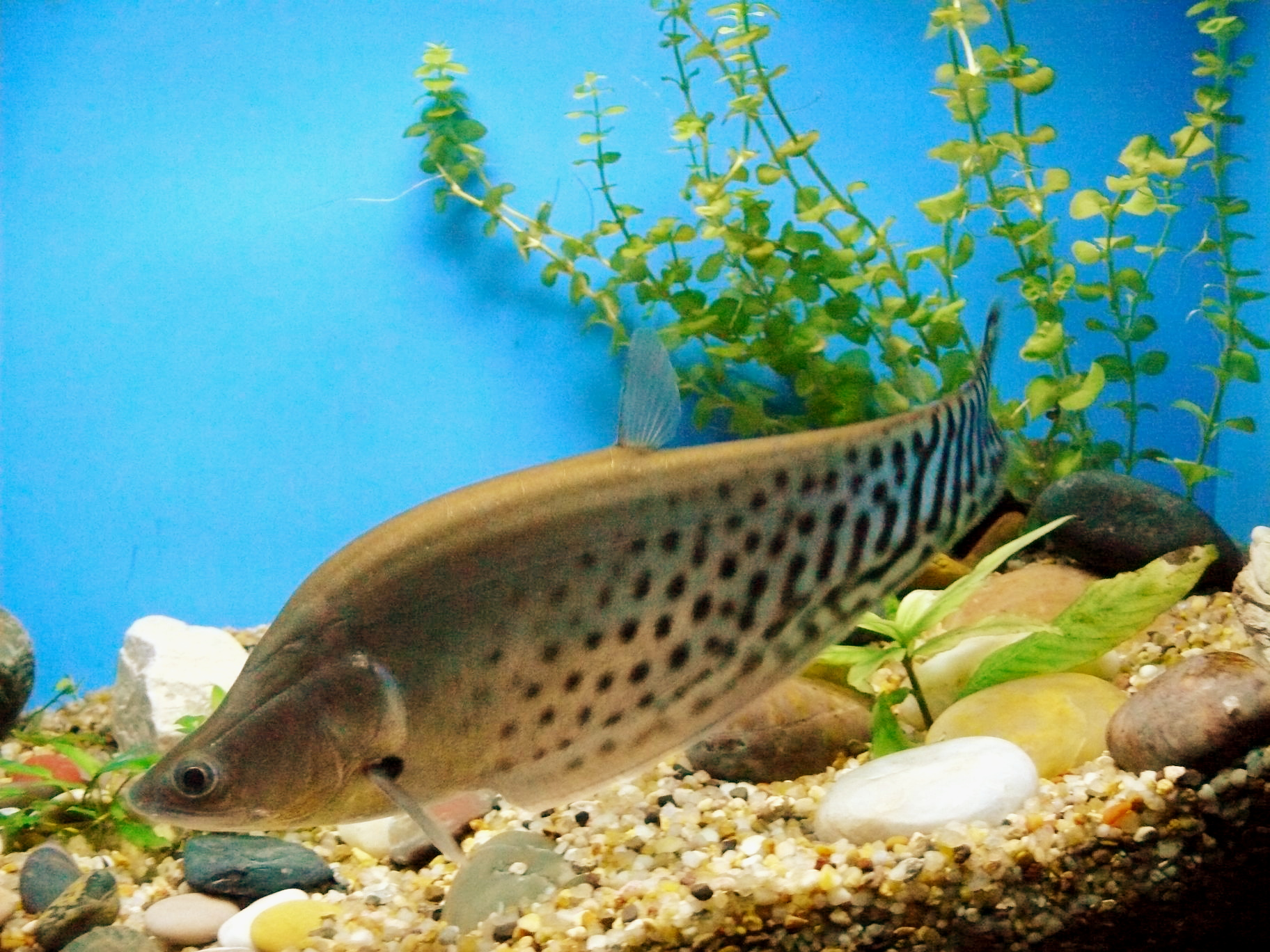 Royal knifefish (Chitala blanci) in Shanghai Ocean Aquarium